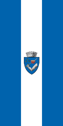 Flag of Targu Mures